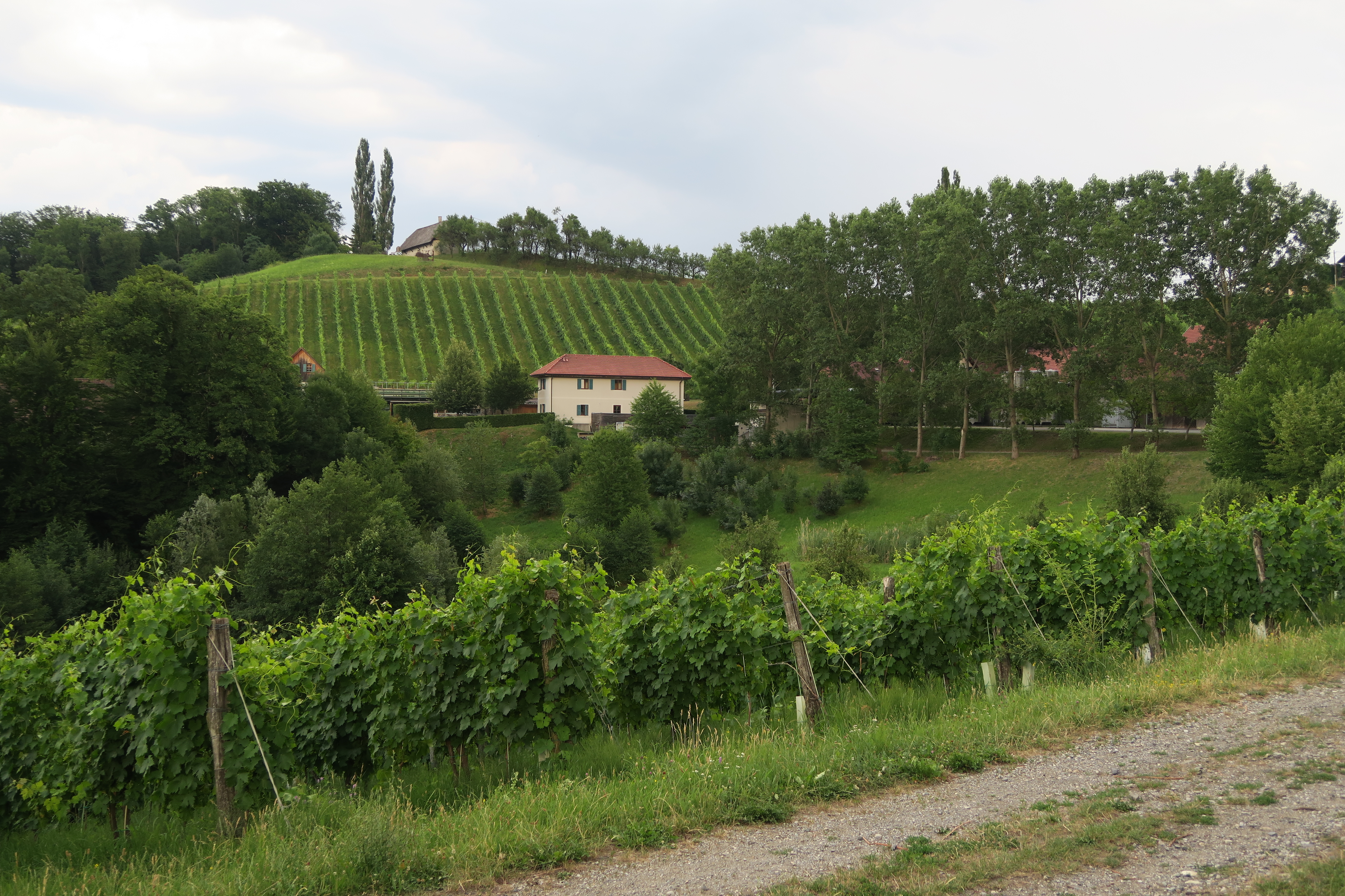 Polz Wine Spielfeld Styria